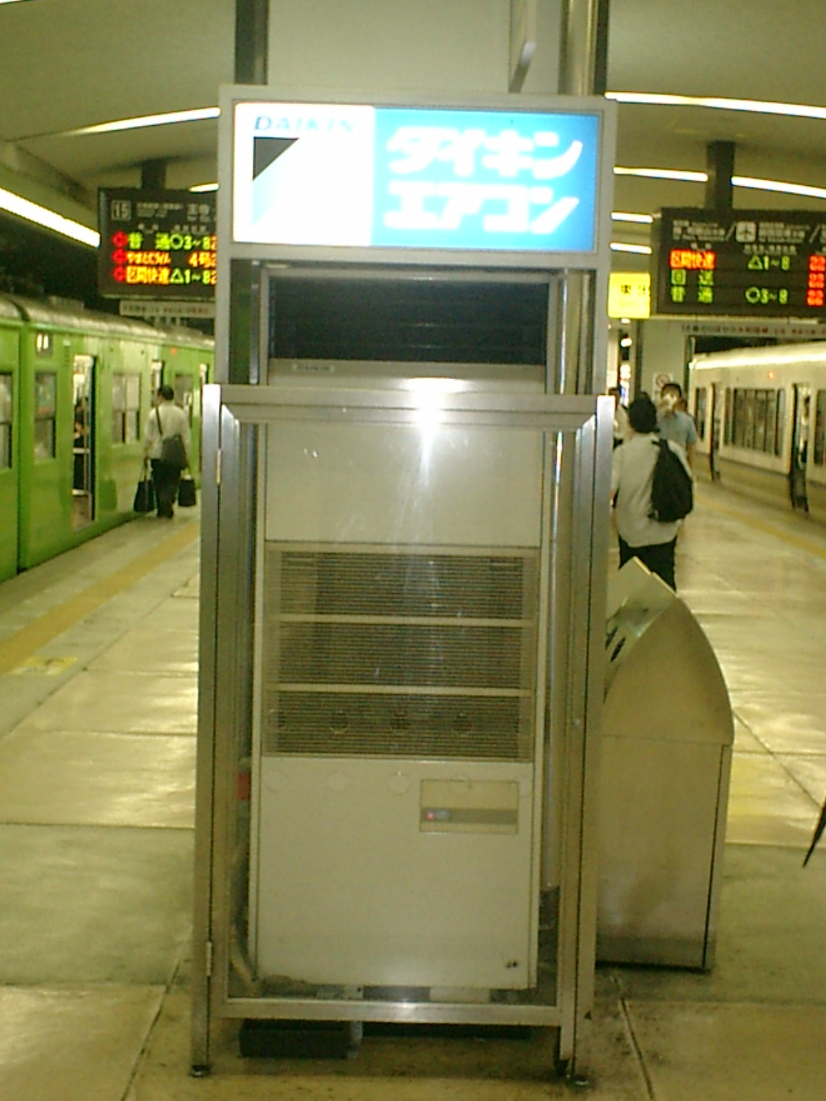 Daikin Industries air conditioner at Tennoji Station.